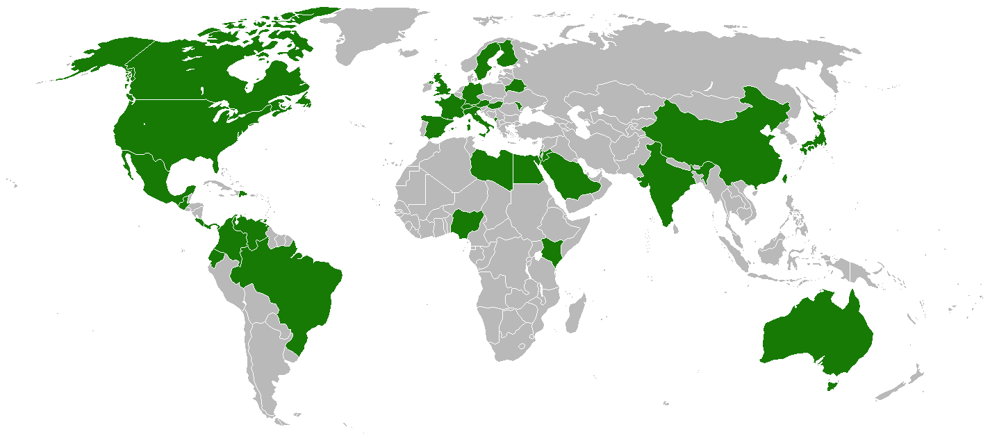 Overview over Embraer-operating countries